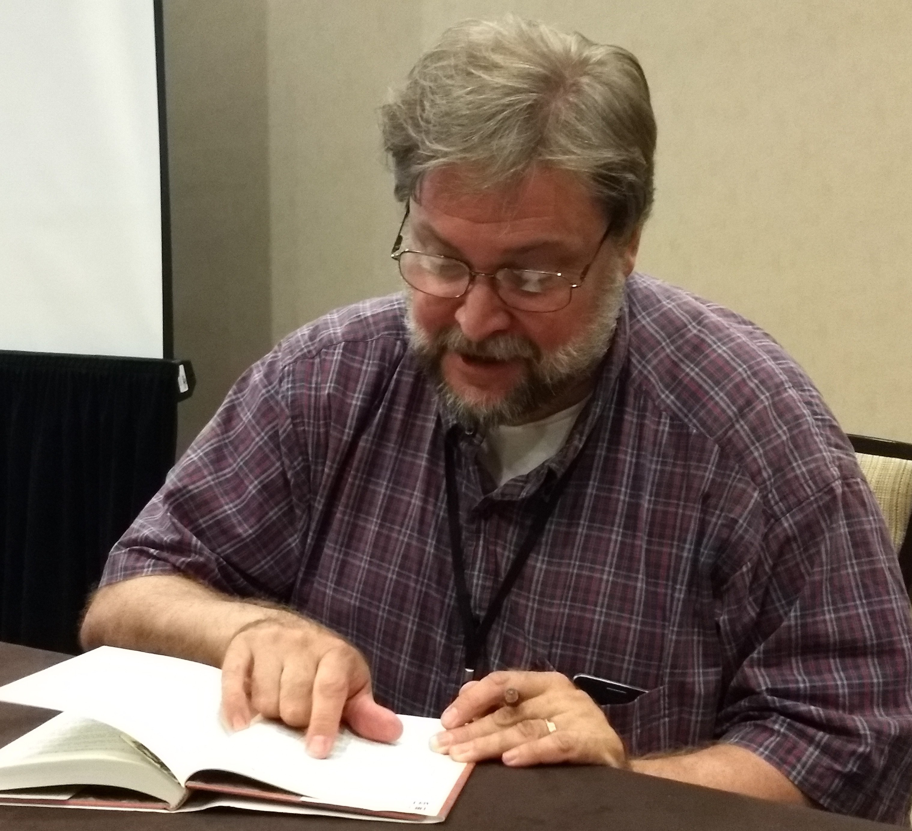 Photo of John Langan, taken at Necronomicon Providence 2019 in Providence, Rhode Island.